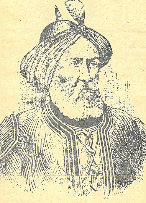 Drawing of Saladin.